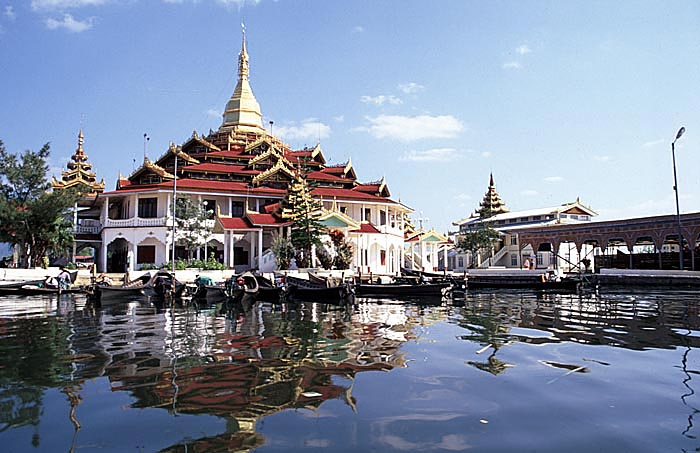 The Phaung Daw U Pagoda on the Inle Lake in Myanmar